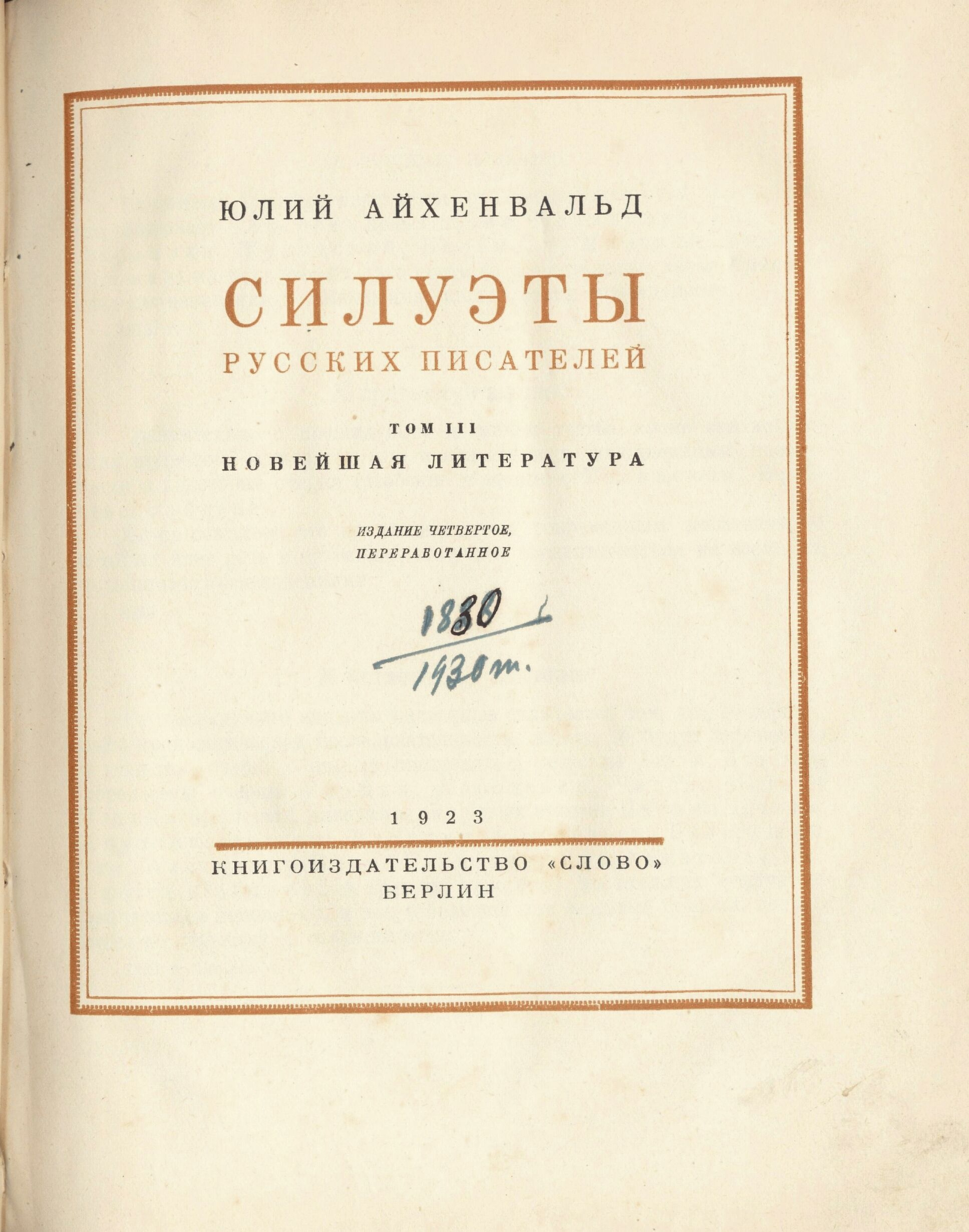 Cover of Silhouettes of Russian Writers, published in 1923 in Berlin